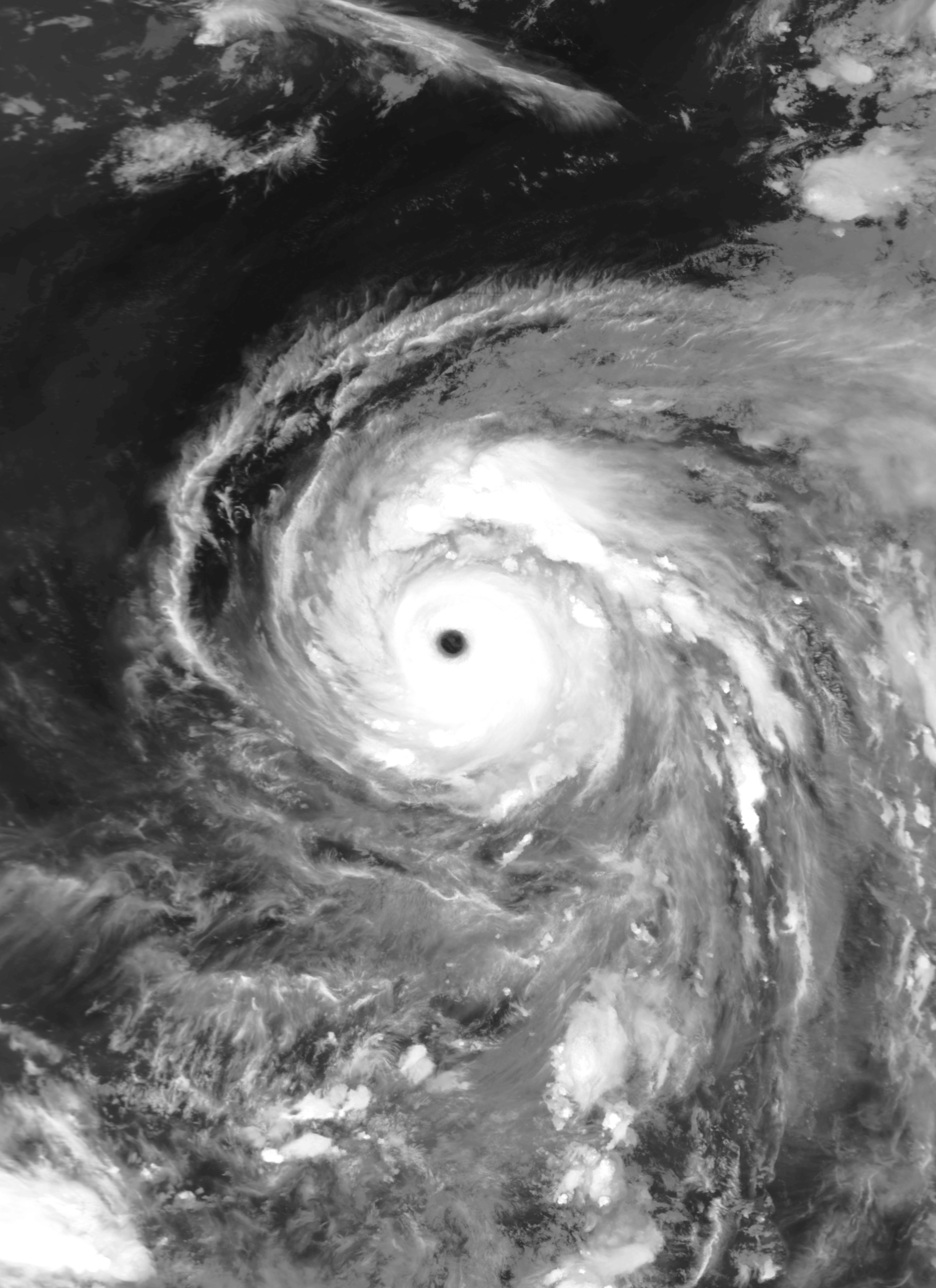 Typhoon Maria on July 8, 2018